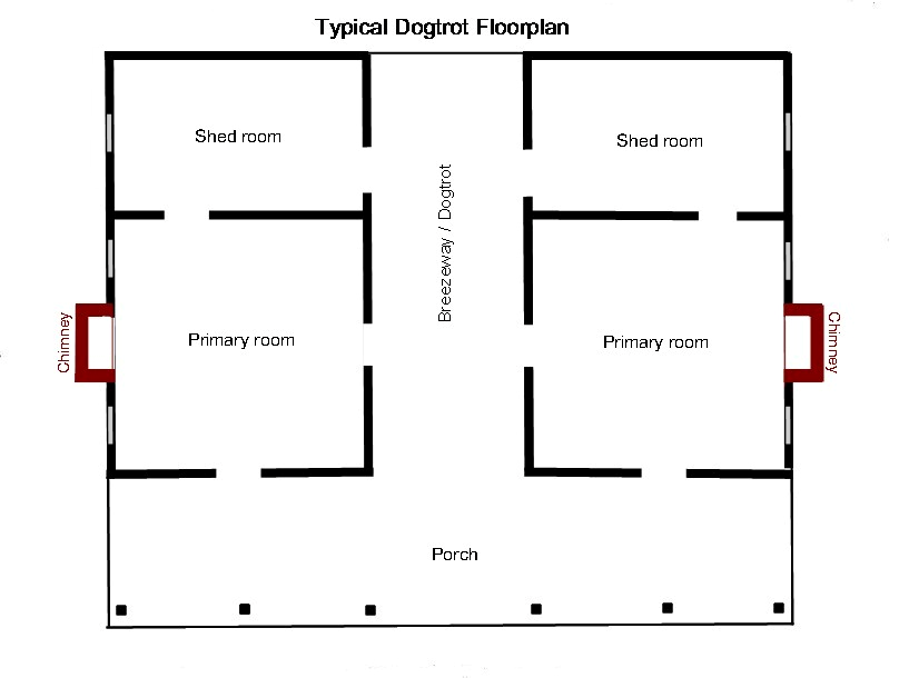 Floorplan of a typical dogtrot/breezeway house in the Southeastern United States.